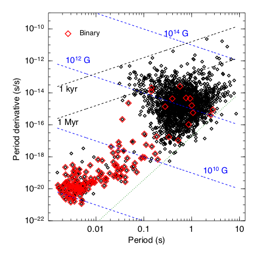 The period-period derivative diagram for all the radio pulsars in the ATNF pulsar catalogue.